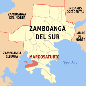 Map of Zamboanga del Sur showing the location of Margosatubig